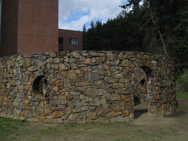 Stone Enclosure: Rock Rings, 1977-78 © Nancy Holt Brown Mountain Stone 10'h. with outer ring 40' d. and inner ring 20' d.